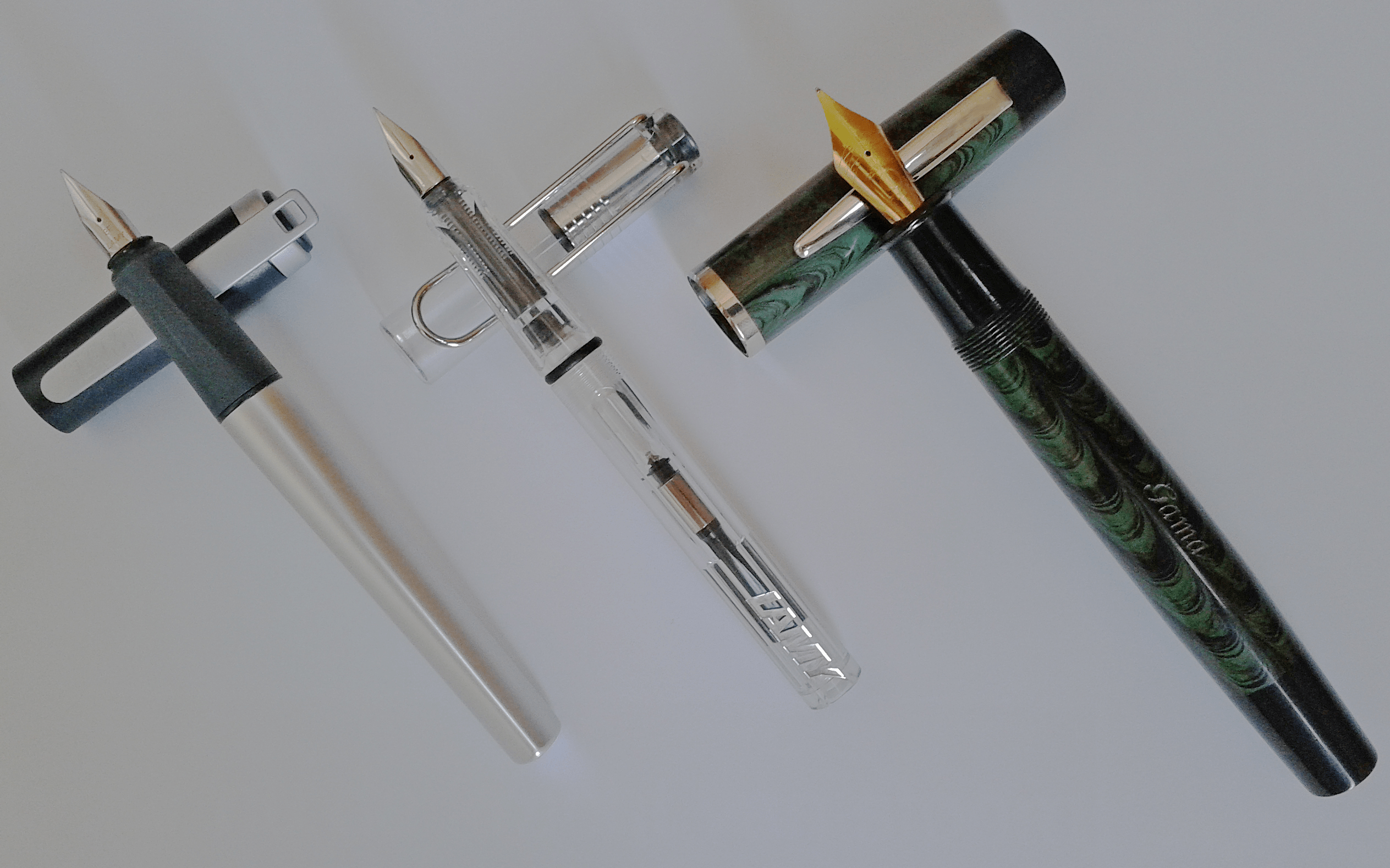 From left to right: Lamy Nexx M student/school pen, Lamy Vista demonstrator student/school pen, Gama Supreme with Ambitious nib ebonite eye dropper pen